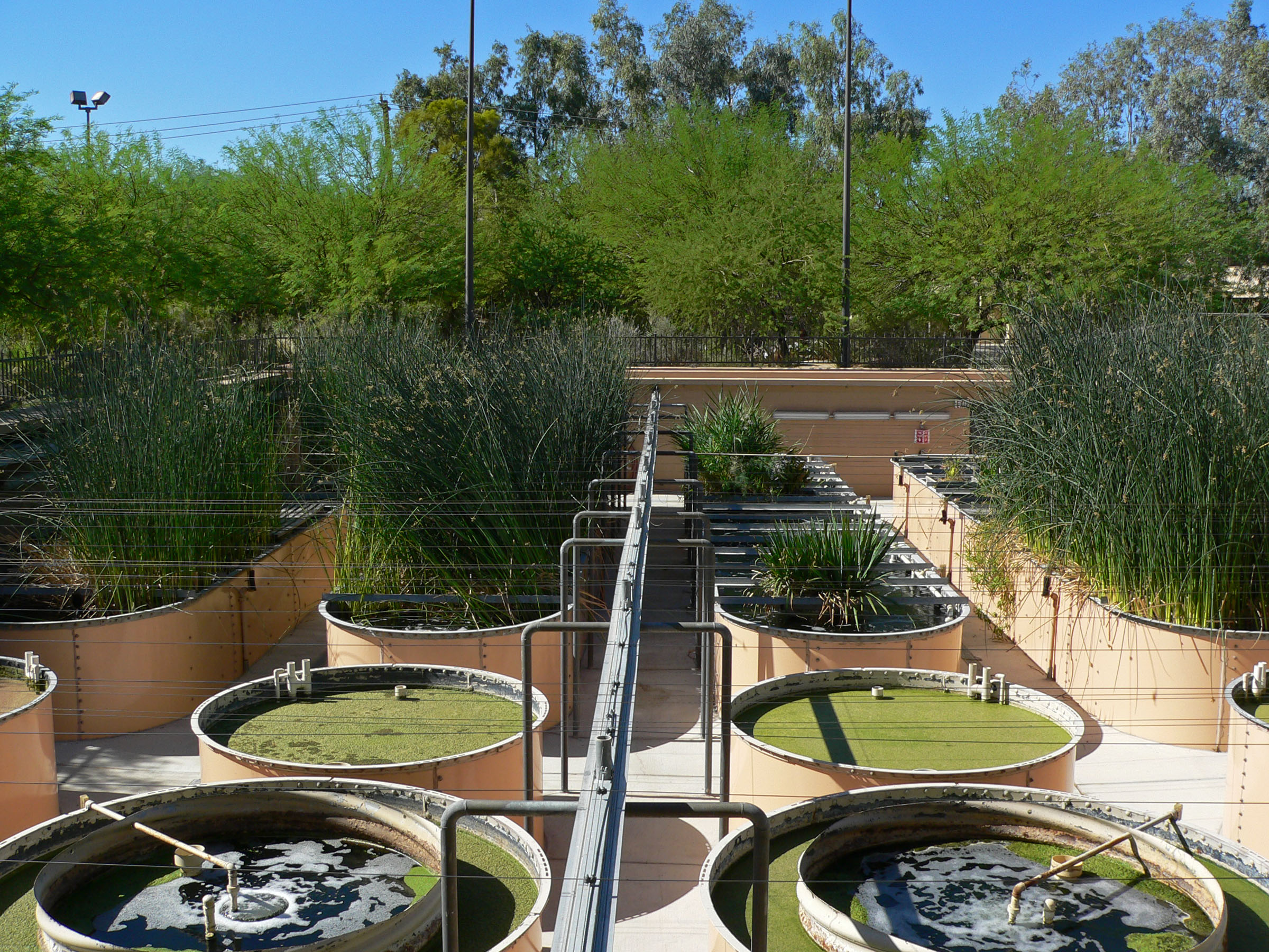 View of the "Living Machine" water treatment facility at Ethel M Botanical Cactus Garden, Las Vegas, Nevada